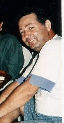 Kayahan Açar in his yacht at Bodrum in 1997.